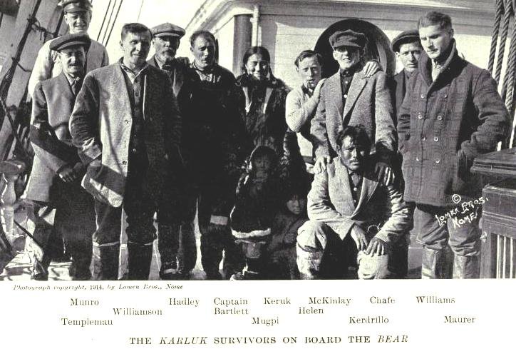 A photograph of the survivors of the Karluk voyage, 1913-14, aboard the rescue vessell Bear